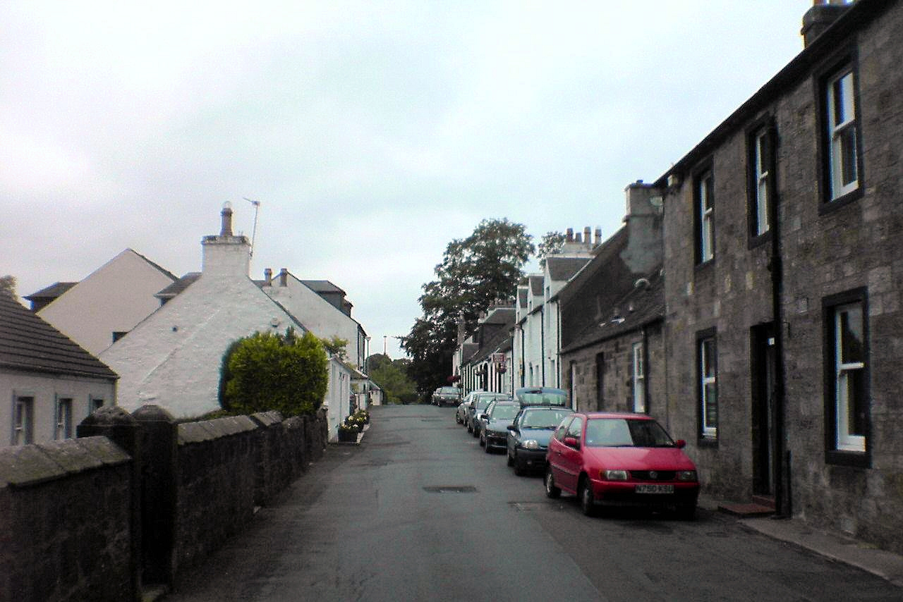 North Street in the village of Houston, Renfrewshire, Scotland, UK.